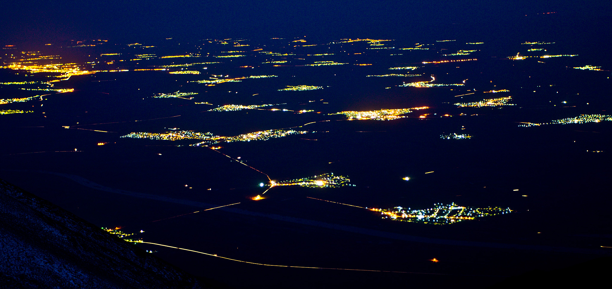 Villages at night in the region of Limni Kerkini (Greece). Picture taken from Belasitsa mountain in Bulgaria.